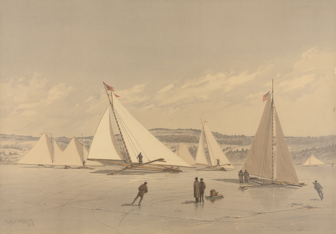 American Yachts Plate XXV. Avalanche, Gypsie, Icicle, Haze, Whiff and Echo. Ice boating on the Hudson Label on reverse inscribed Artist's Proof. American Yachts Plate XXV. Avalanche, Gypsie, Icicle, Haze, Whiff and Echo. Ice boating on the Hudson